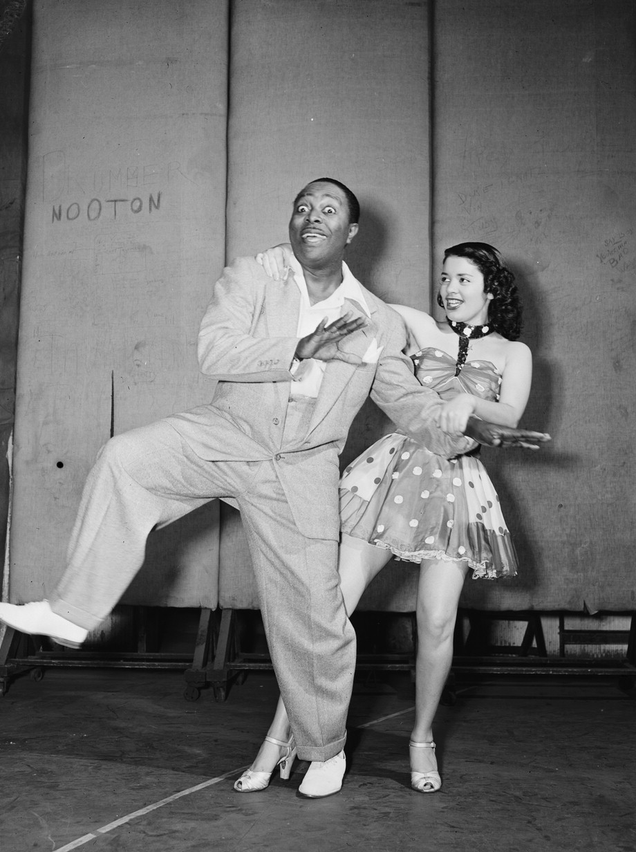 Louis Jordan, July 1946. Photograph by William P. Gottlieb